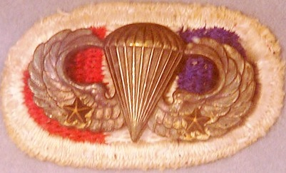 Photograph taken by Richard Chambers, March 2006, of the jump wings| of Private William (Bill) Wheeler who served in 2nd Battalion, 506th PIR of the 101st Airborne Division during World War II. Mr. Wheeler made two combat jumps as indicated by the two bronze stars on his wings, one for D-Day of the Battle of Normandy| in which he jumped as a pathfinder| and one for Operation Market Garden in which he jumped as a parachute infantryman. Summary Photograph taken by Richard Chambers, March 2006, of the jump wings of Private William (Bill) Wheeler who served in 2nd Battalion, 506th PIR of the 101st Airborne Division during World War II. Mr. Wheeler made two combat jumps as indicated by the two bronze stars on his wings, one for D-Day of the Battle of Normandy in which he jumped as a pathfinder and one for Operation Market Garden in which he jumped as a parachute infantryman.